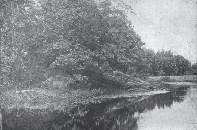 black/white photograph of Egg Rock from east, over Sudbury River